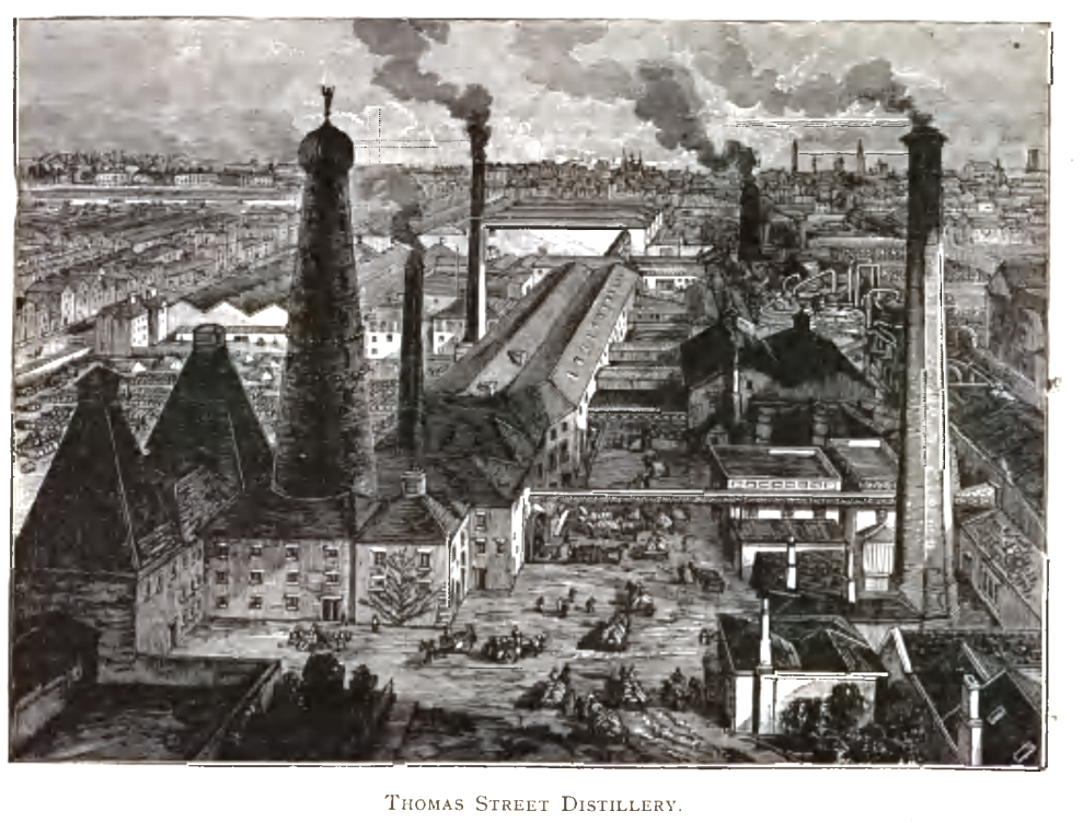 A sketch of the now defunct George Roe's Thomas Street Distillery circa. 1892.